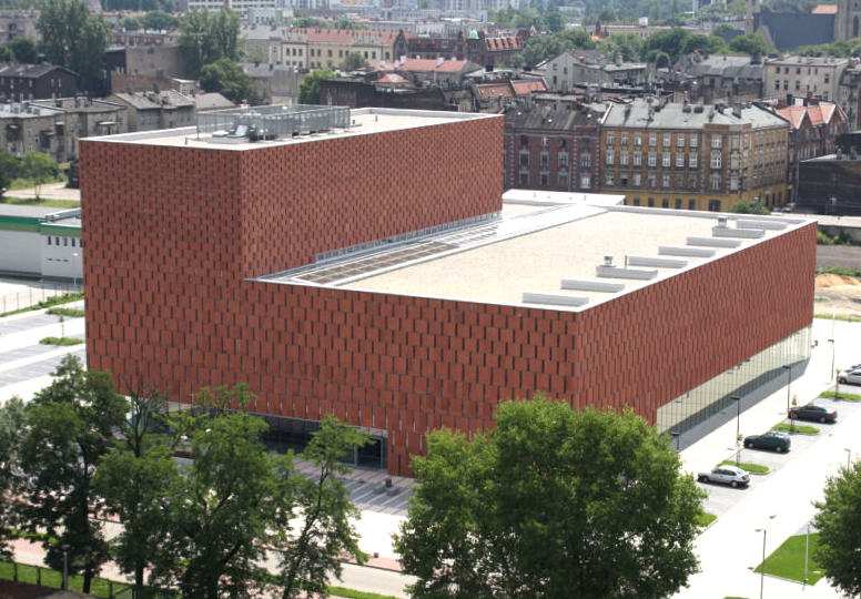 Centrum Informacji Naukowej i Biblioteka Akademicka (CINiBA)